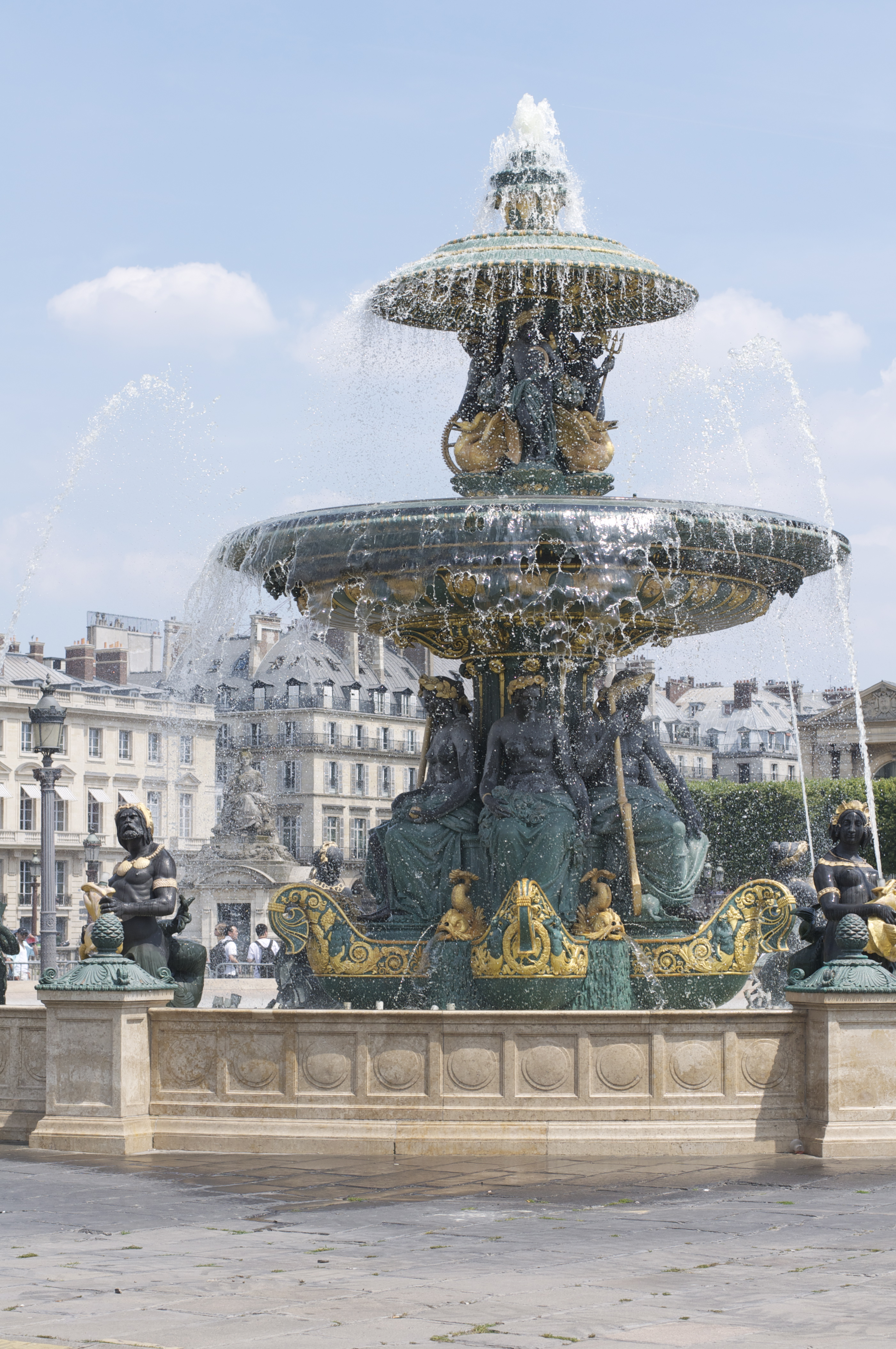 Fountains in the Place de la Concorde